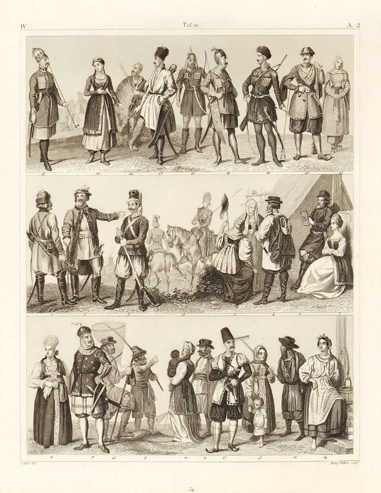 Russia and Caucasus. Original multiview steel engraving engraved by H. Winkles after G. Heck. 1849. Hand-coloured. 24,5x20cm. Mounted. 1-2. Strielzi (Shooters), 3. Russo-Polish guard, 4-7. Inhabitants of Little Russia, 8-10. Fishermen from the Volga, 11. Inhabitants of Novgorod, 12&13. Inhabitants of the district of Twer, 14. Inhabitants of the Ukraine, 15. Cossack of the Don, 16. Inhabitants of the district of Moscow, 17-22. Circassians, 23. Turkoman, 24. Abasian 25. Mingrelian, 26. Imeritian, 27. Georgian